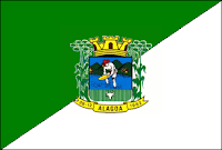 Flags of the city of Alagoa, Minas Gerais, Brazil.